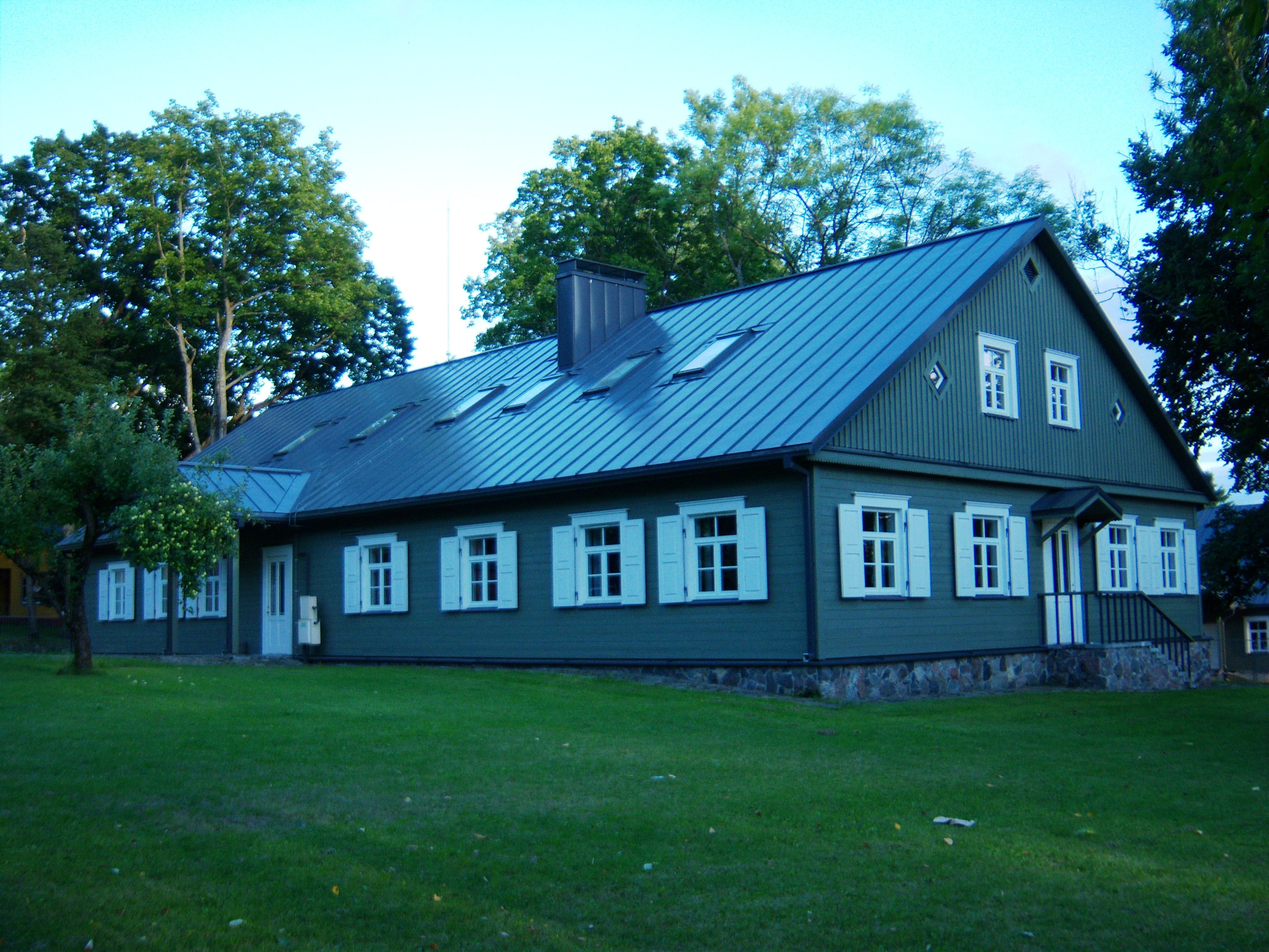 Anykščiai Regional Park, Lithuania